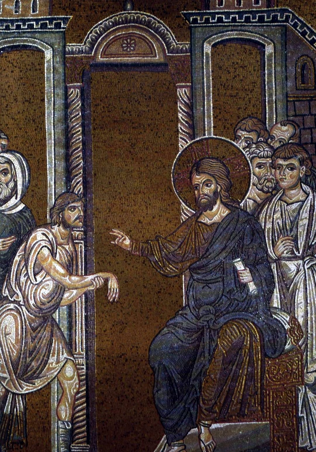 Christ heals the man with paralysed hand. Byzantine mosaic in the Cathedral of Monreale.